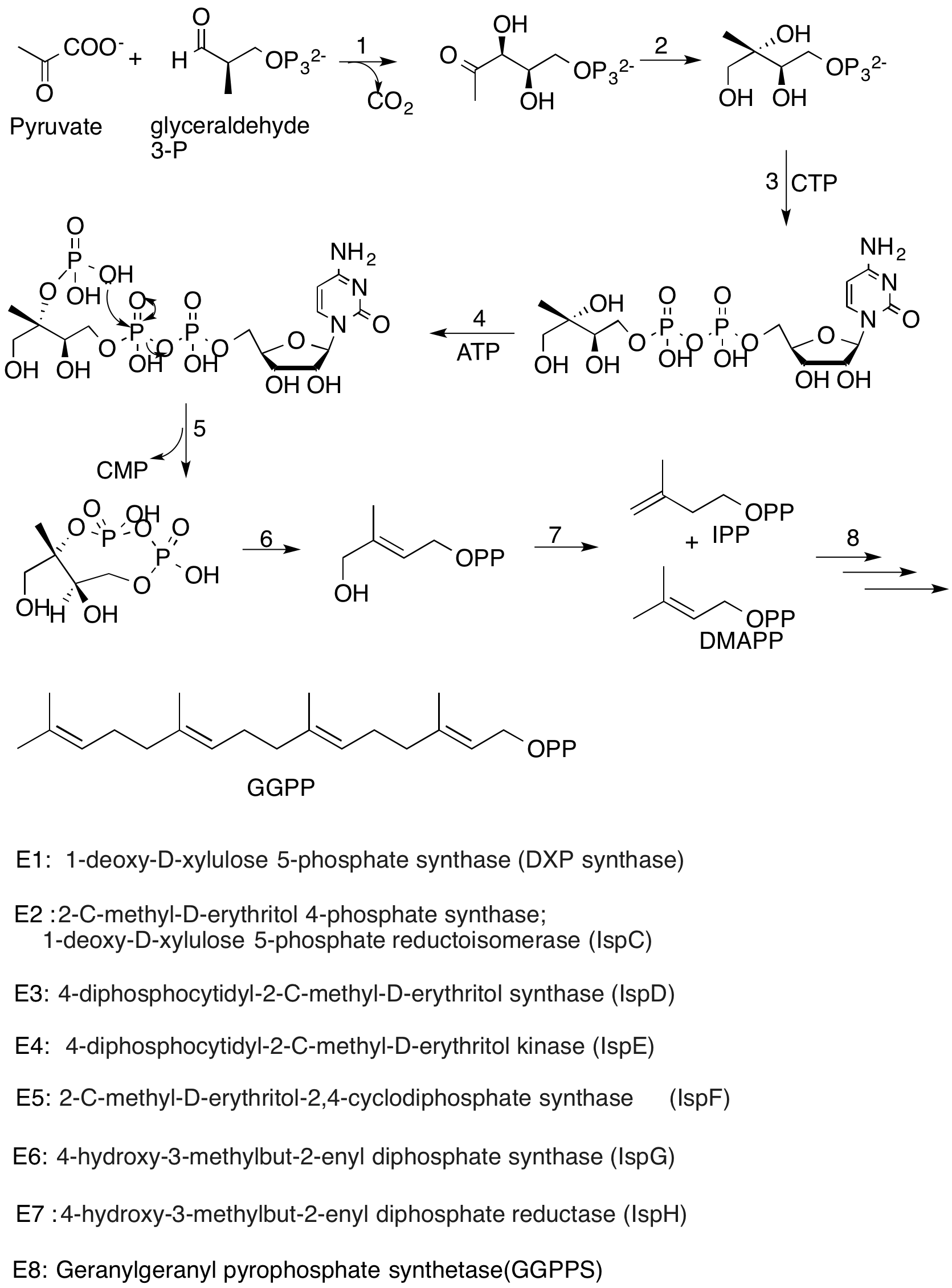 Biosynthesis of GGPP